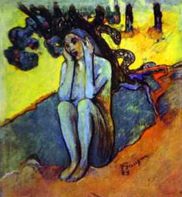 Paul Gauguin: Eve - Don't Listen to the Liar (1889, Watecolor and paste)